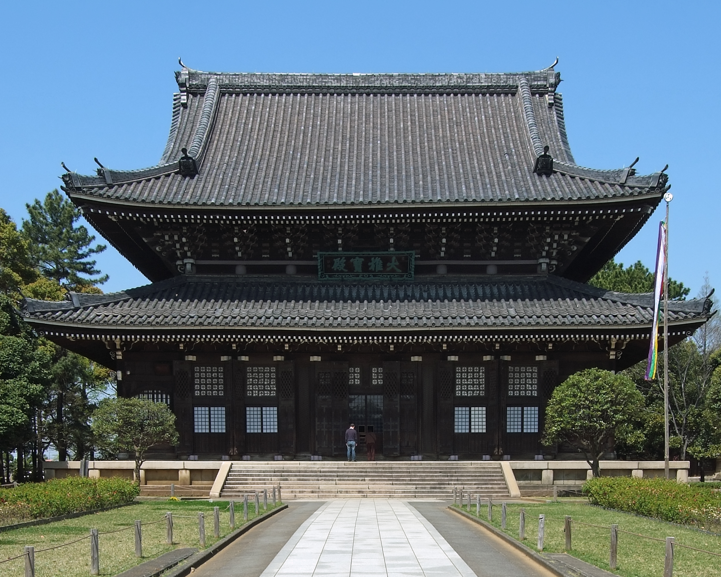 Sōjiji Butsuden, Tsurumi-ku Yokohama Japan.